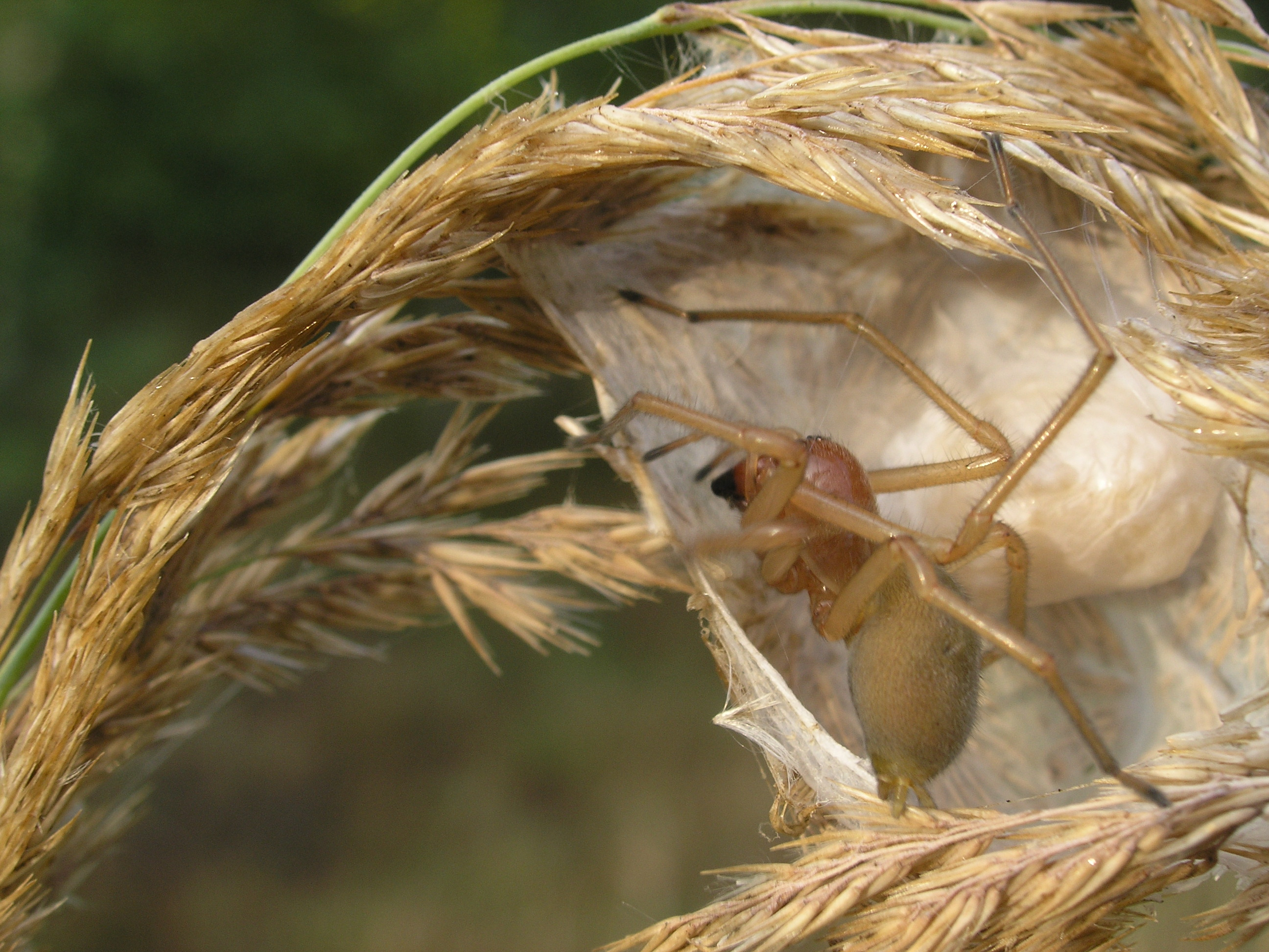 Female Dornfinger spider (Cheiracanthium punctorium) in opened cocoon. Clutch of eggs in the Back of the cocoon.